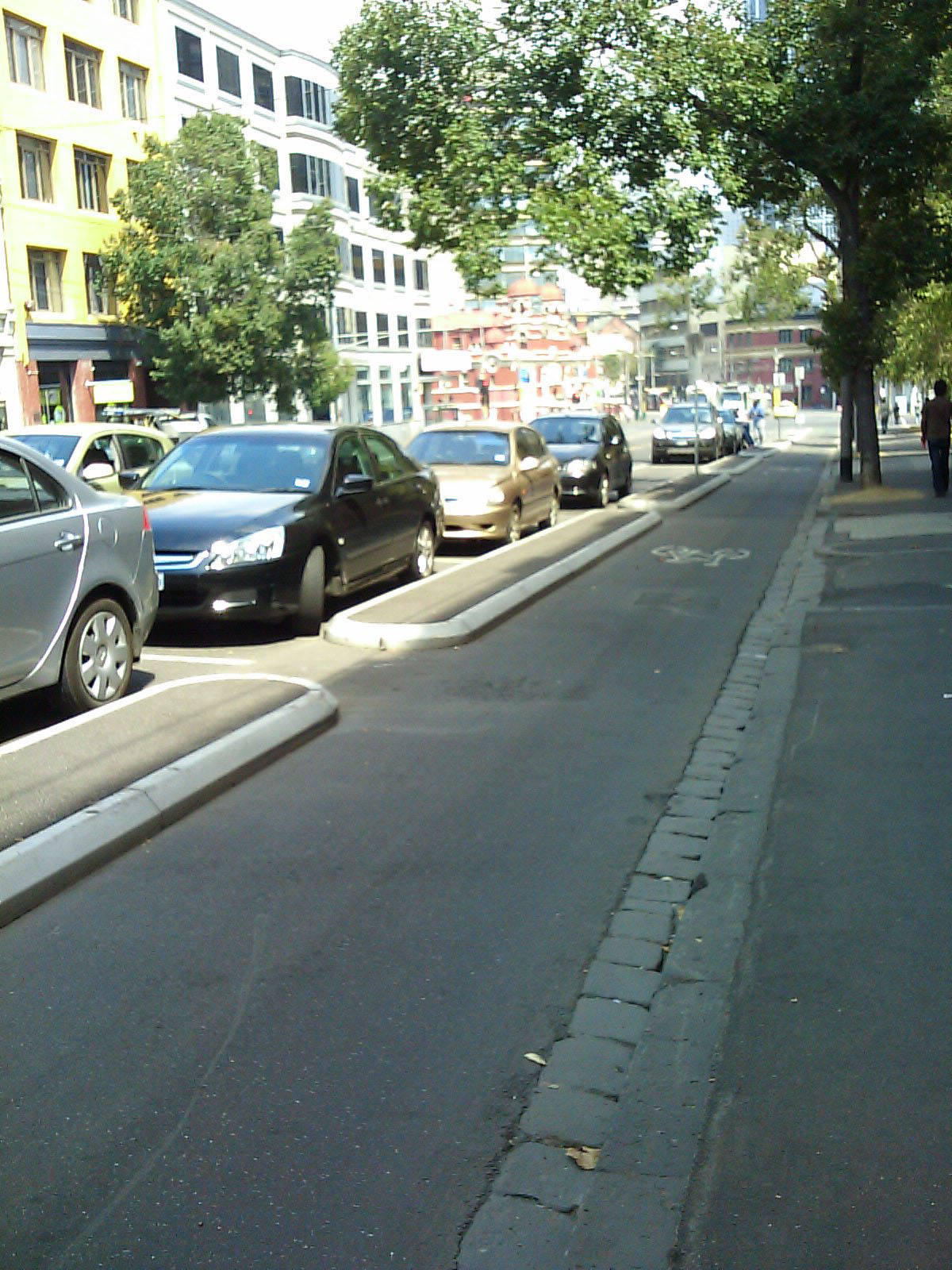 "Copenhagen style" bike lane in Melbourne, Australia